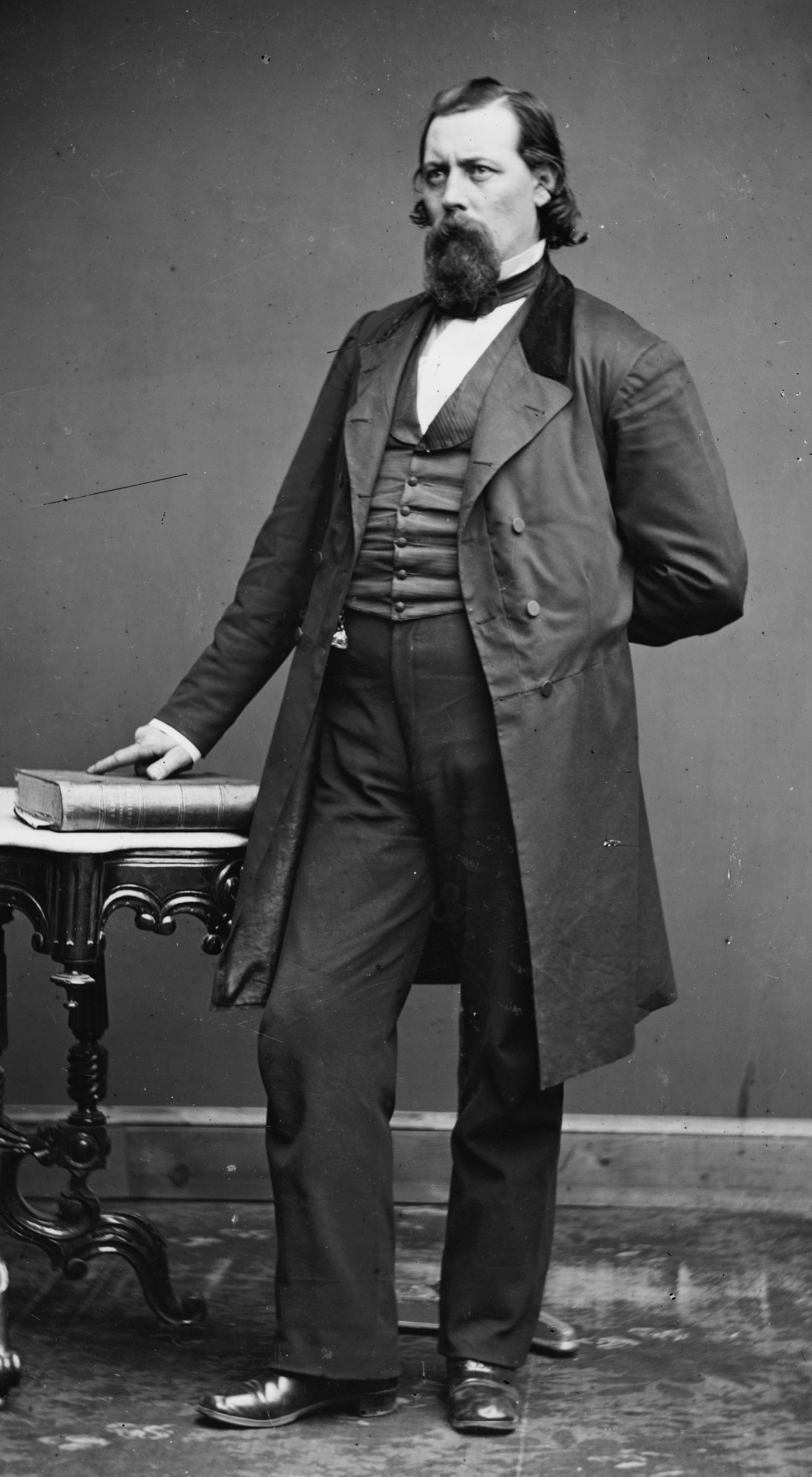 Ward Hill Lamon. Library of Congress description: "Ward H. Lamon of PA".